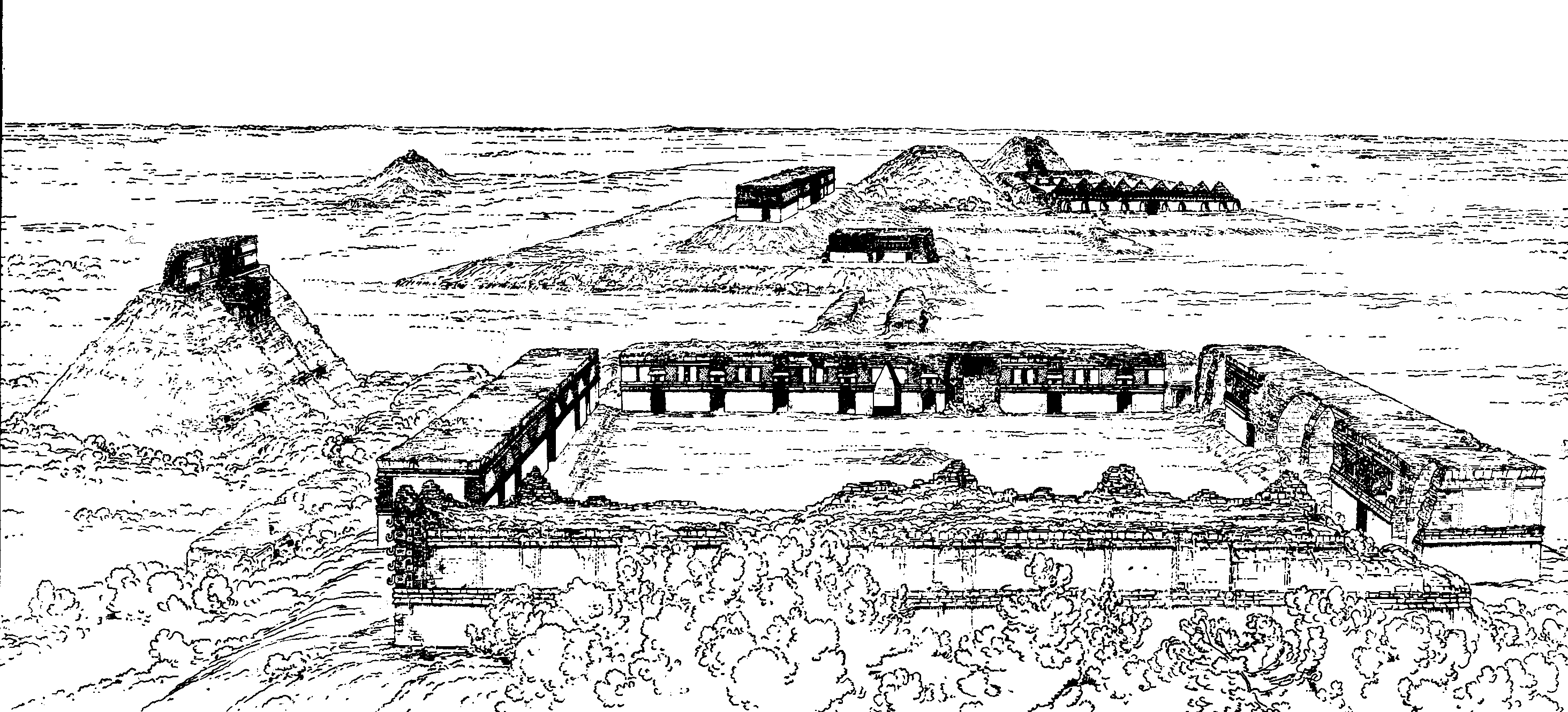 Uxmal, Yucatan, Mexico, Panoramic view